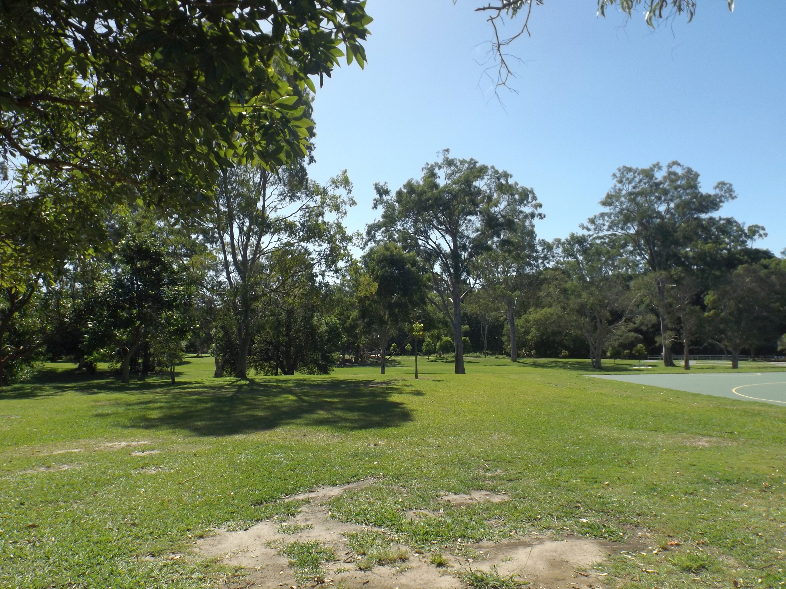 Photo of Kalinga Park in Wooloowin, Brisbane, Queensland, Australia.